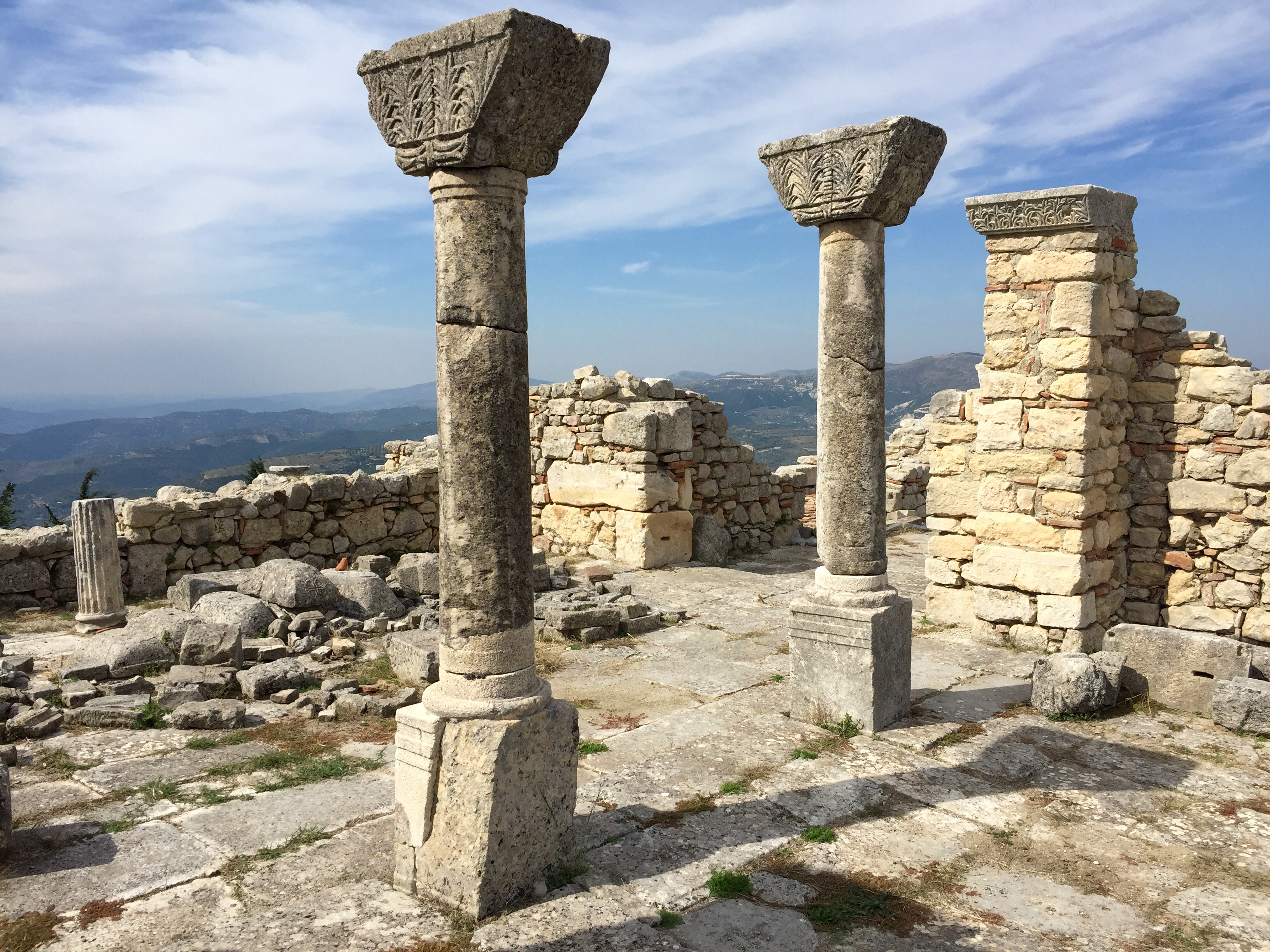 Basilica